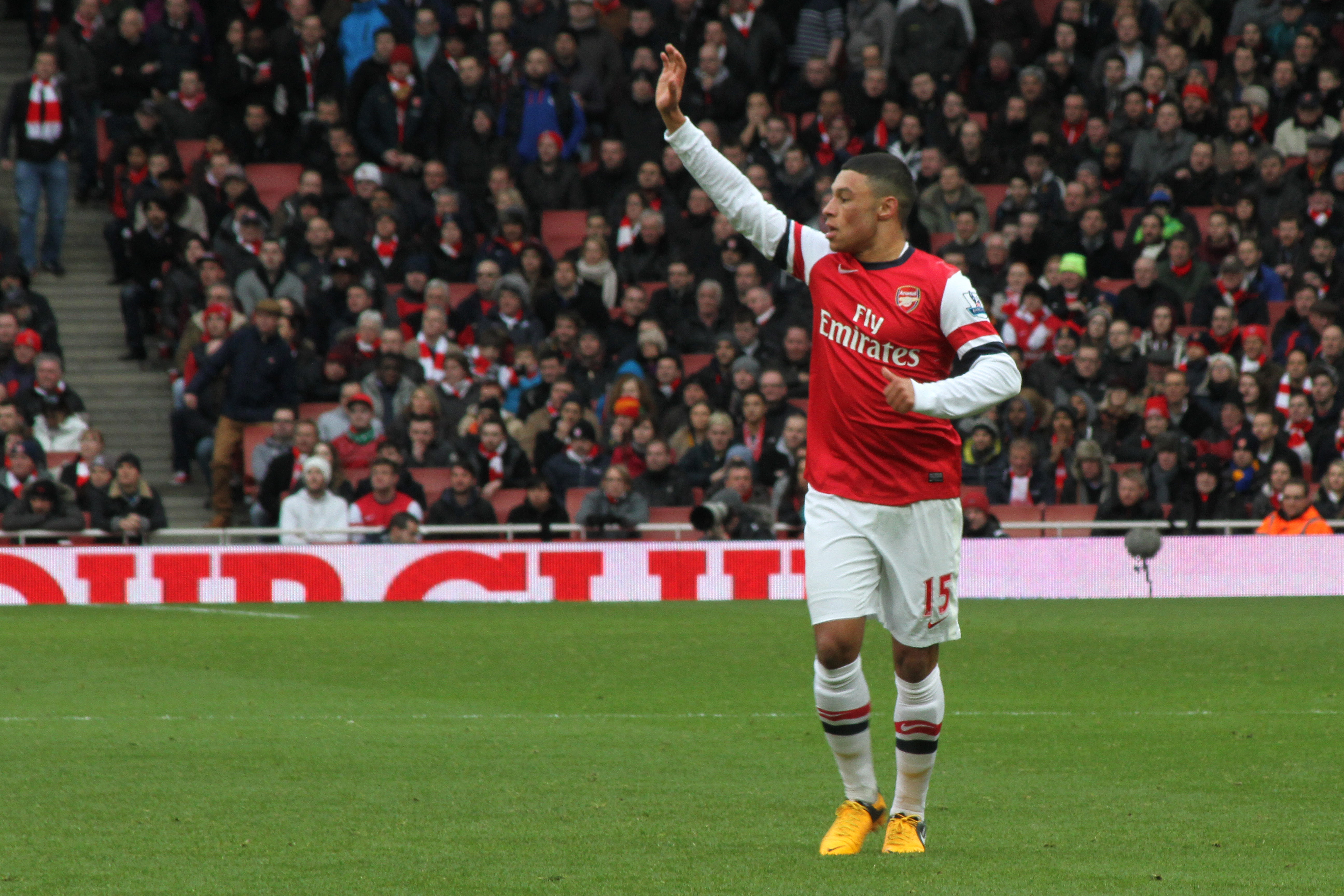 Alex Oxlade Chamberlain playing vs Stoke.